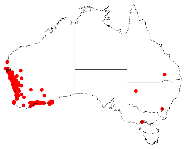 Acacia rostellifera Occurrence data from Australasia Virtual Herbarium downloaded from on 8 December 2018